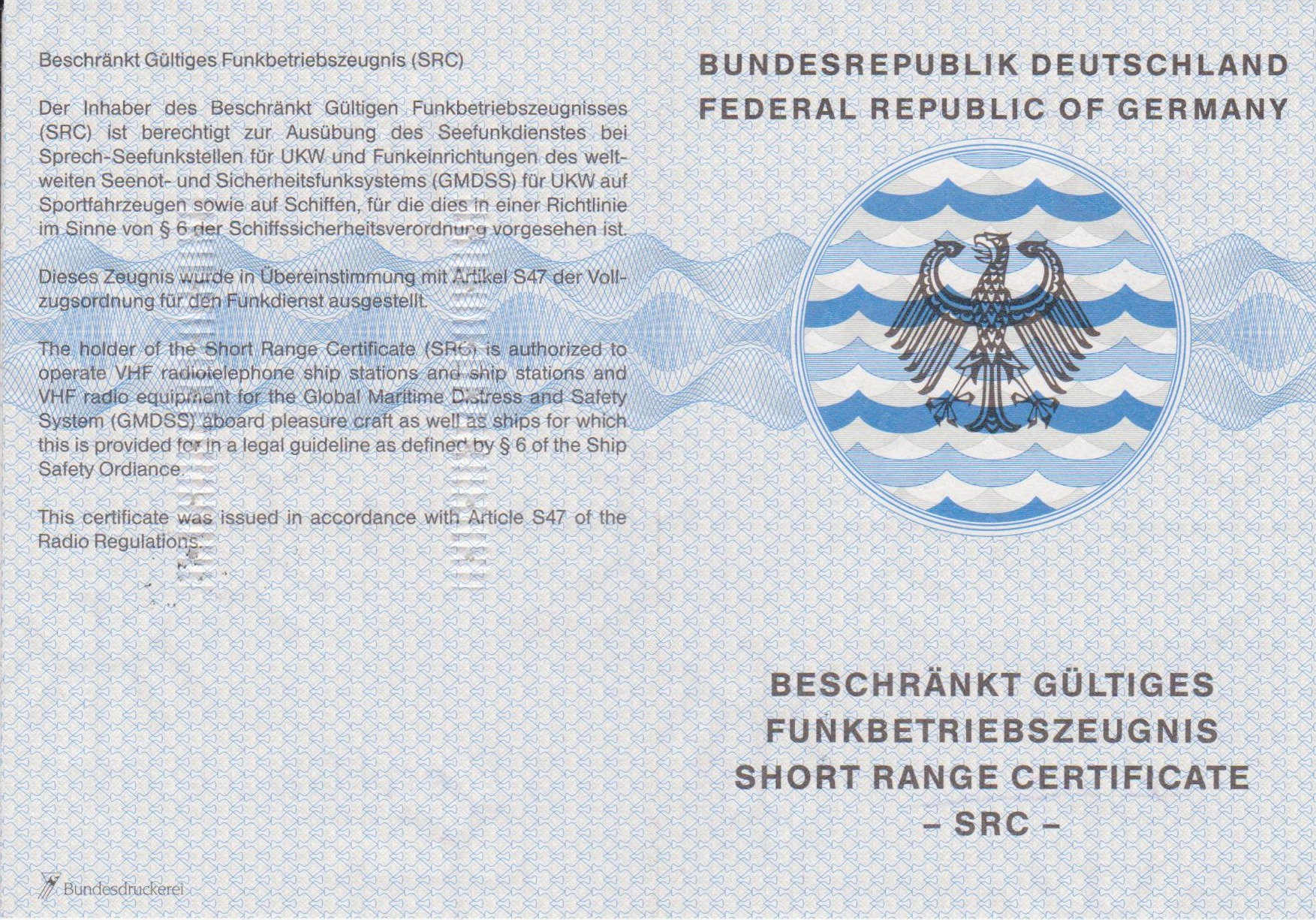 Short Range Certificate